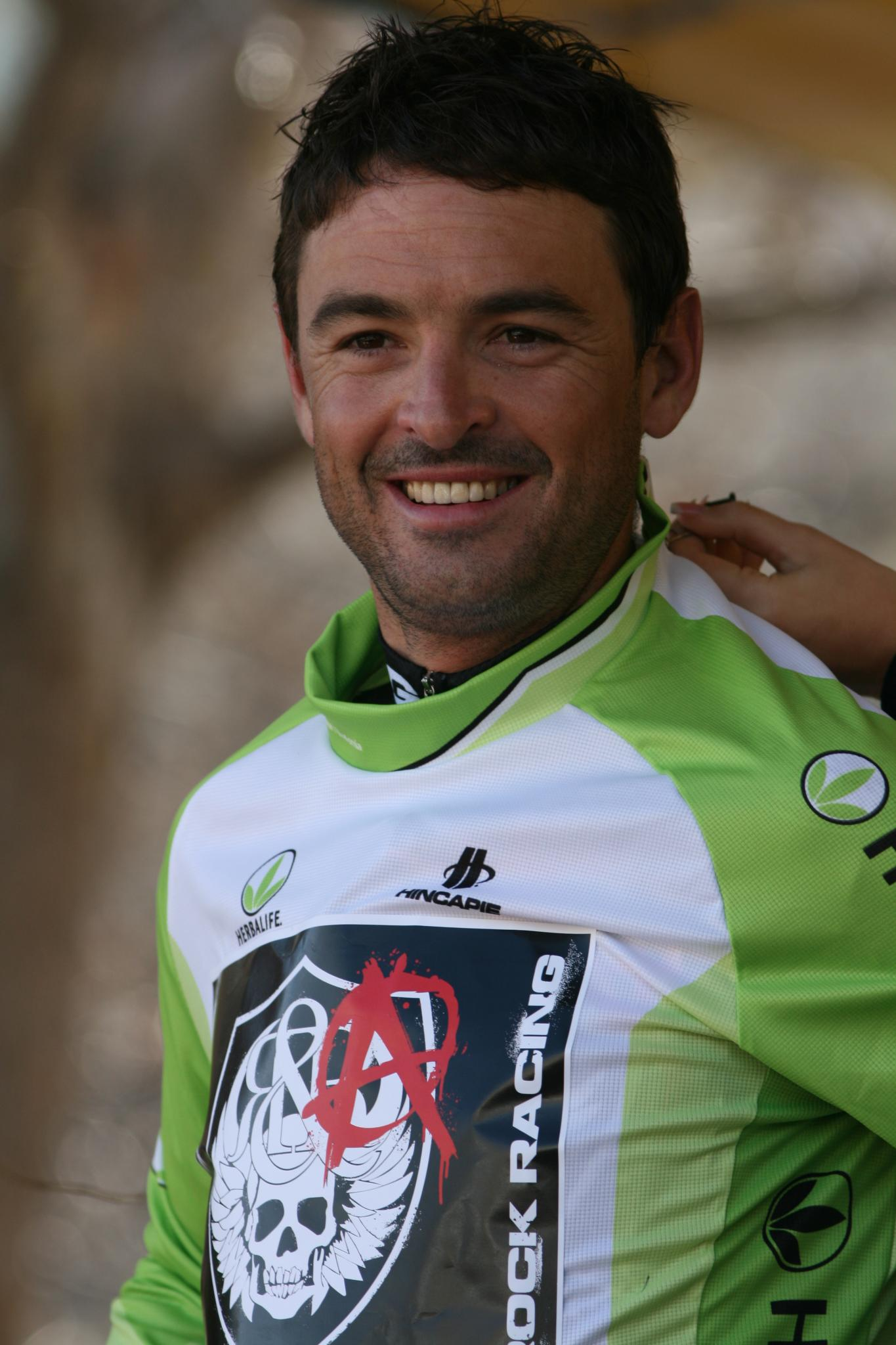 Tour of California 2009